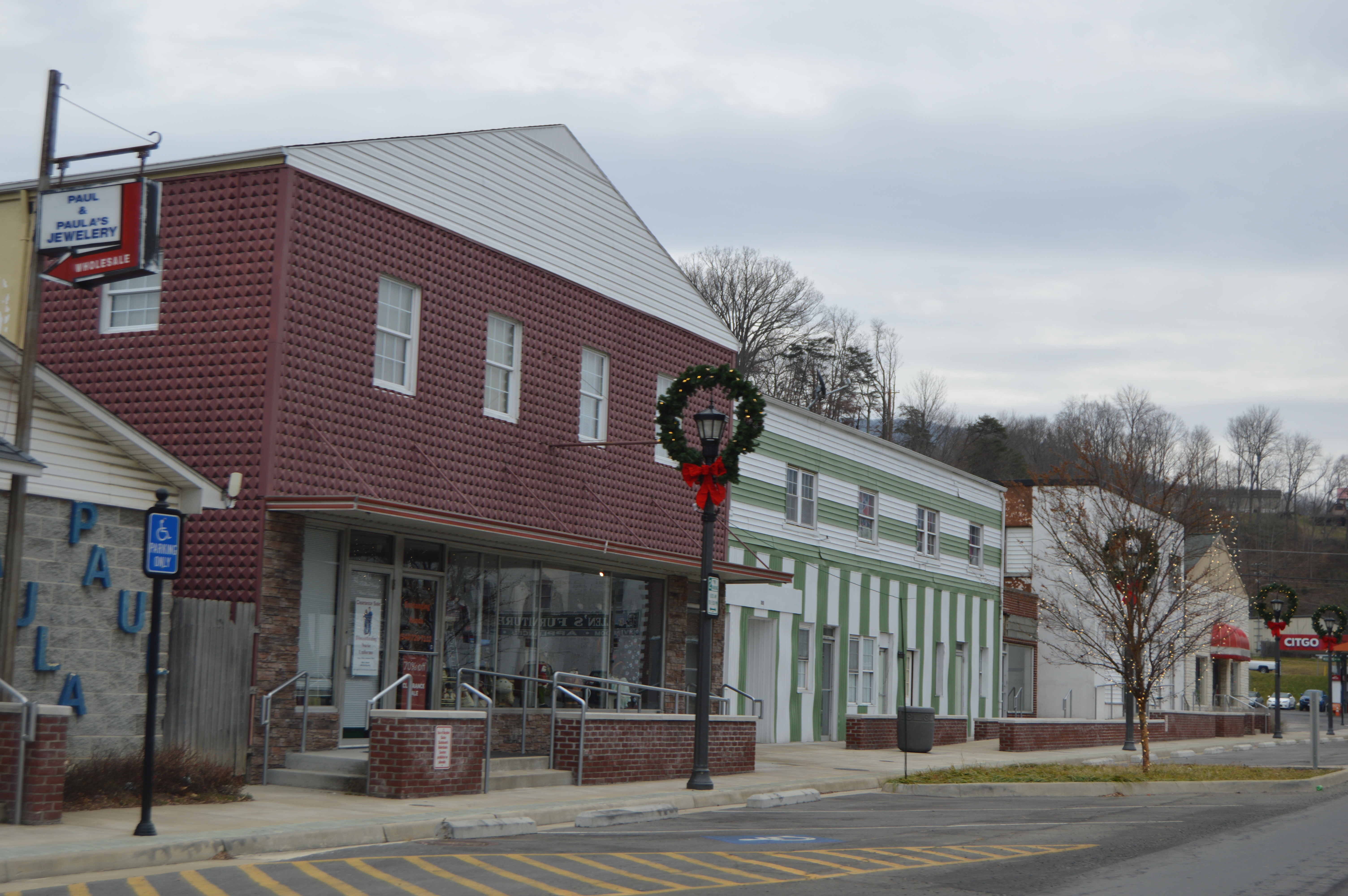 Buildings on the eastern side of Old Virginia Avenue, seen looking south from Knob Street, in Rich Creek, Virginia, United States.